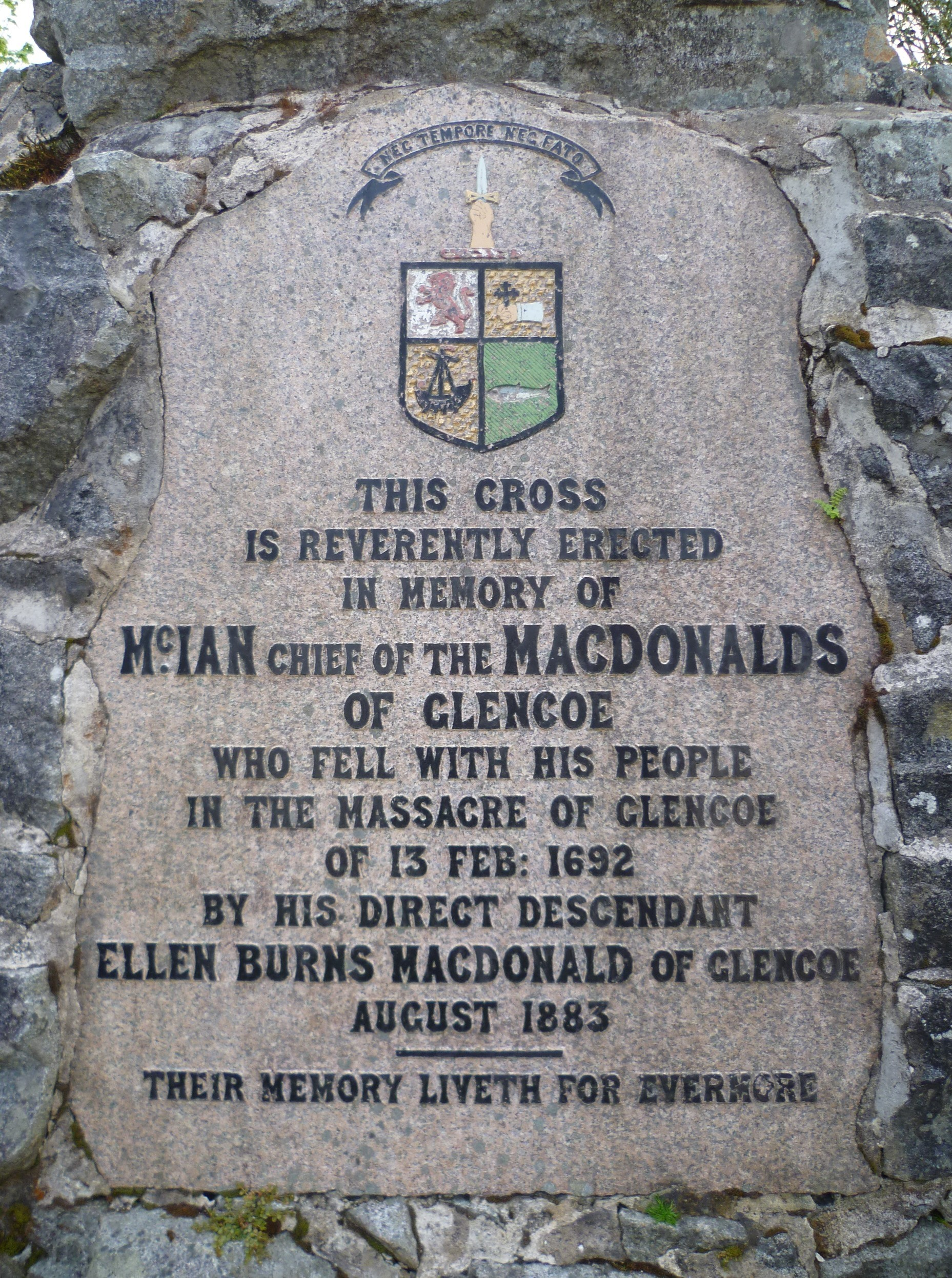 Glencoe Massacre Memorial inscription